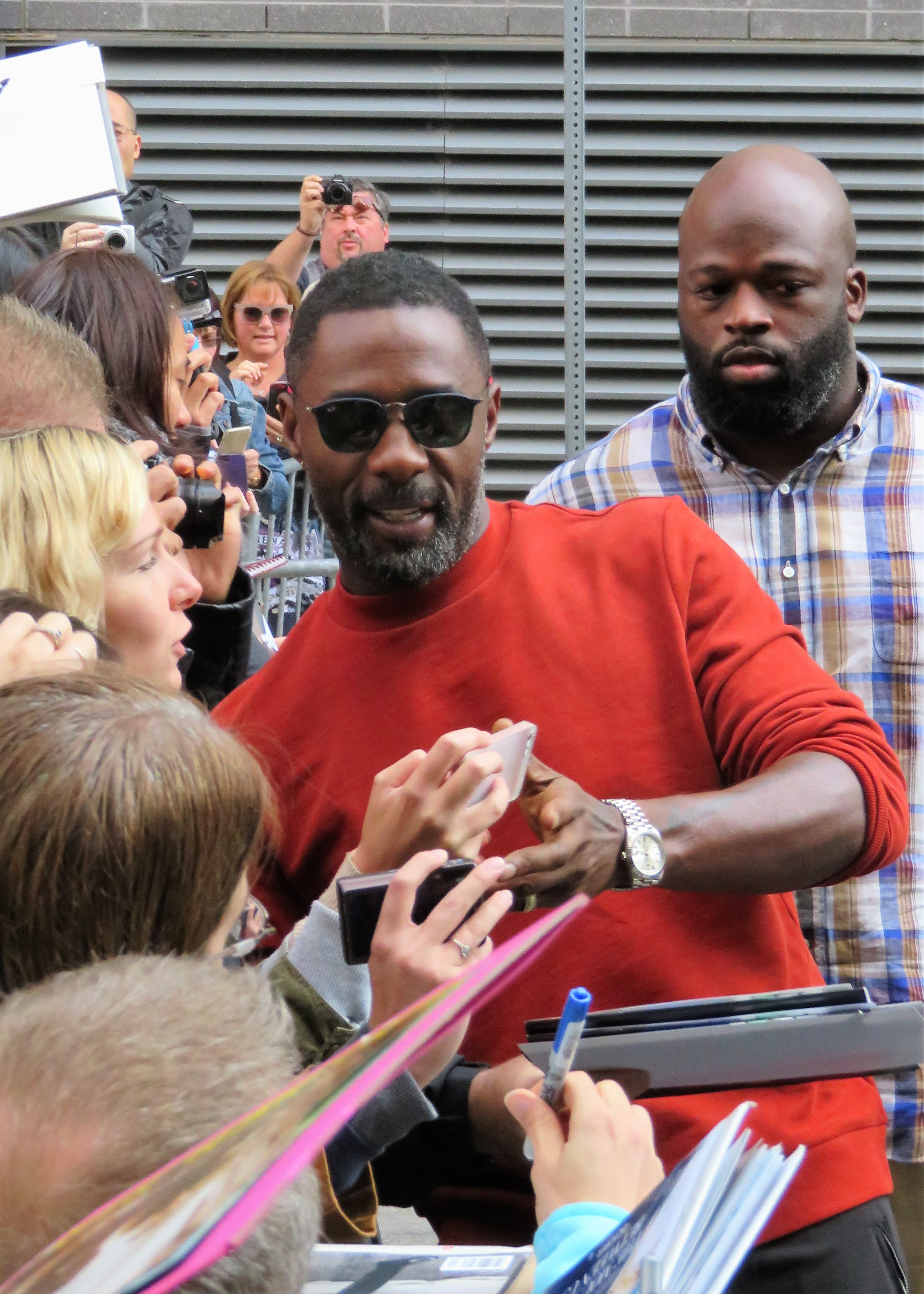 Idris Elba at the press conference of The Mountain Between Us, 2017 Toronto Film Festival